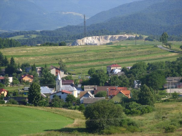 Mala Cierna village